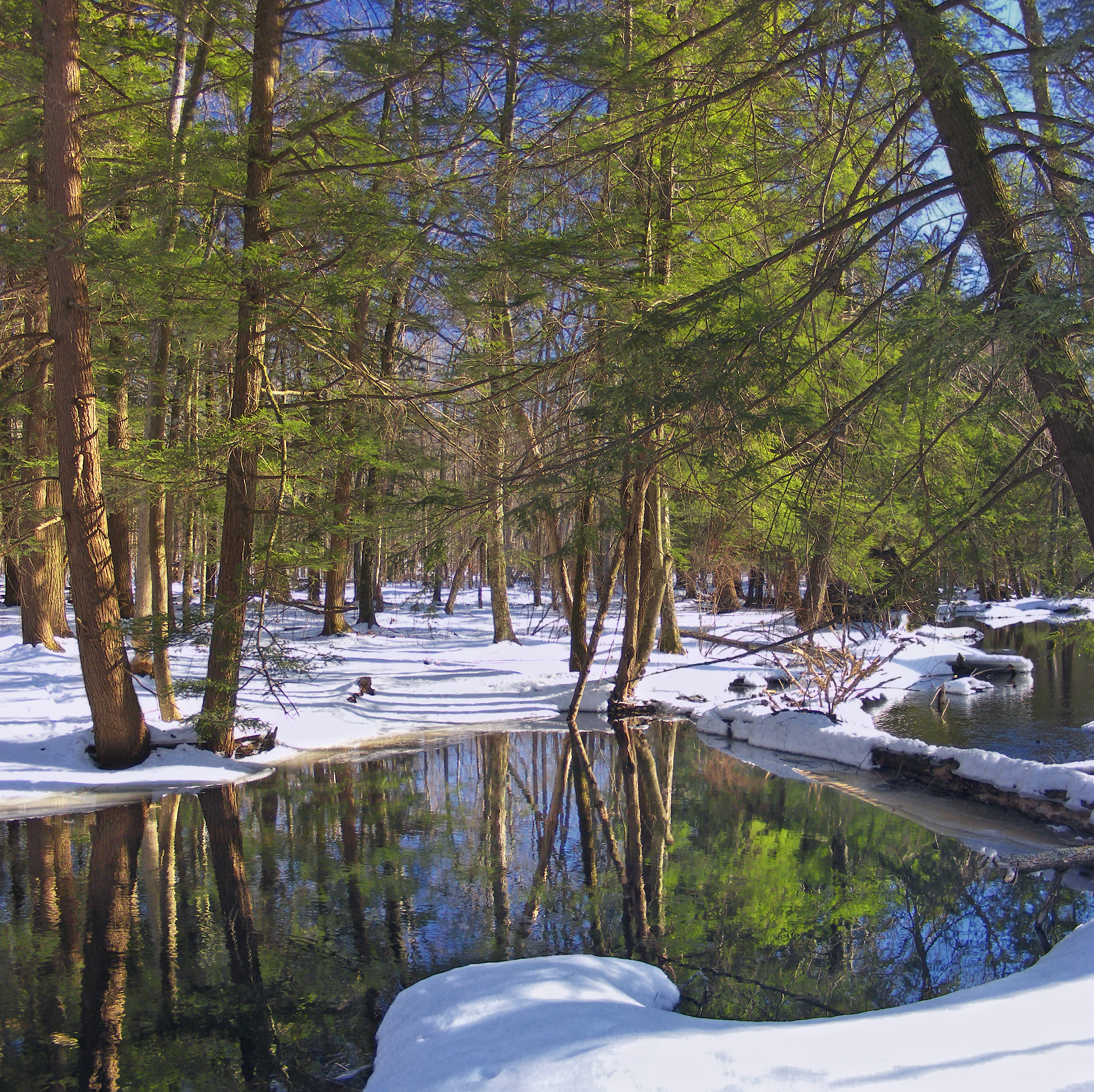 Spruce Run, Delaware State Forest, Pike County.